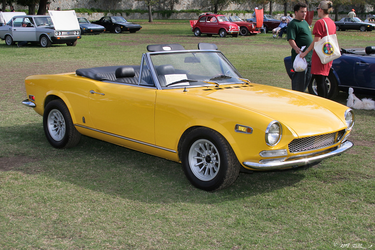 1970 Fiat 124 Spider Sport - yellow - fvr-1